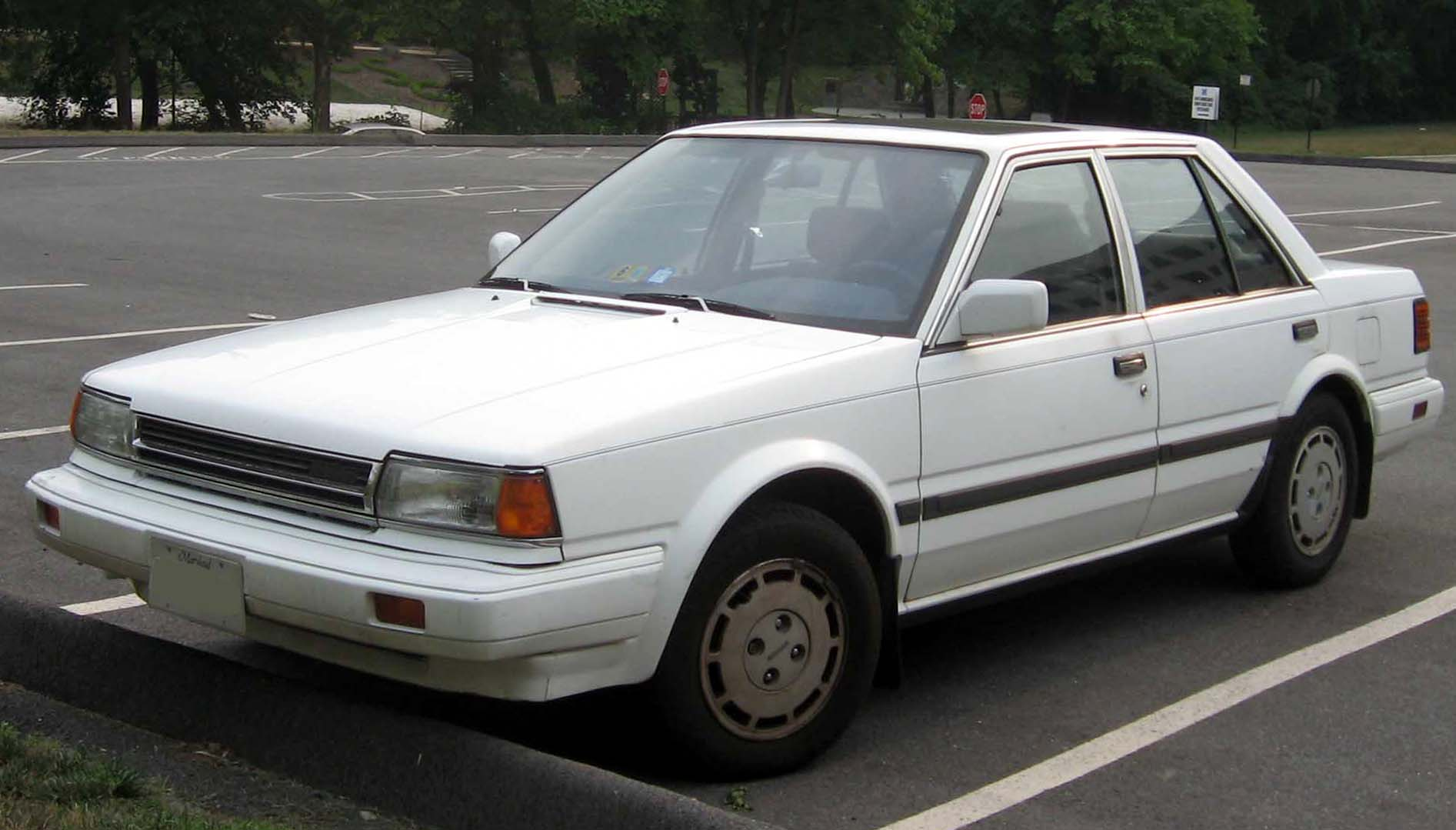 1987-1989 Nissan Stanza photographed in USA.